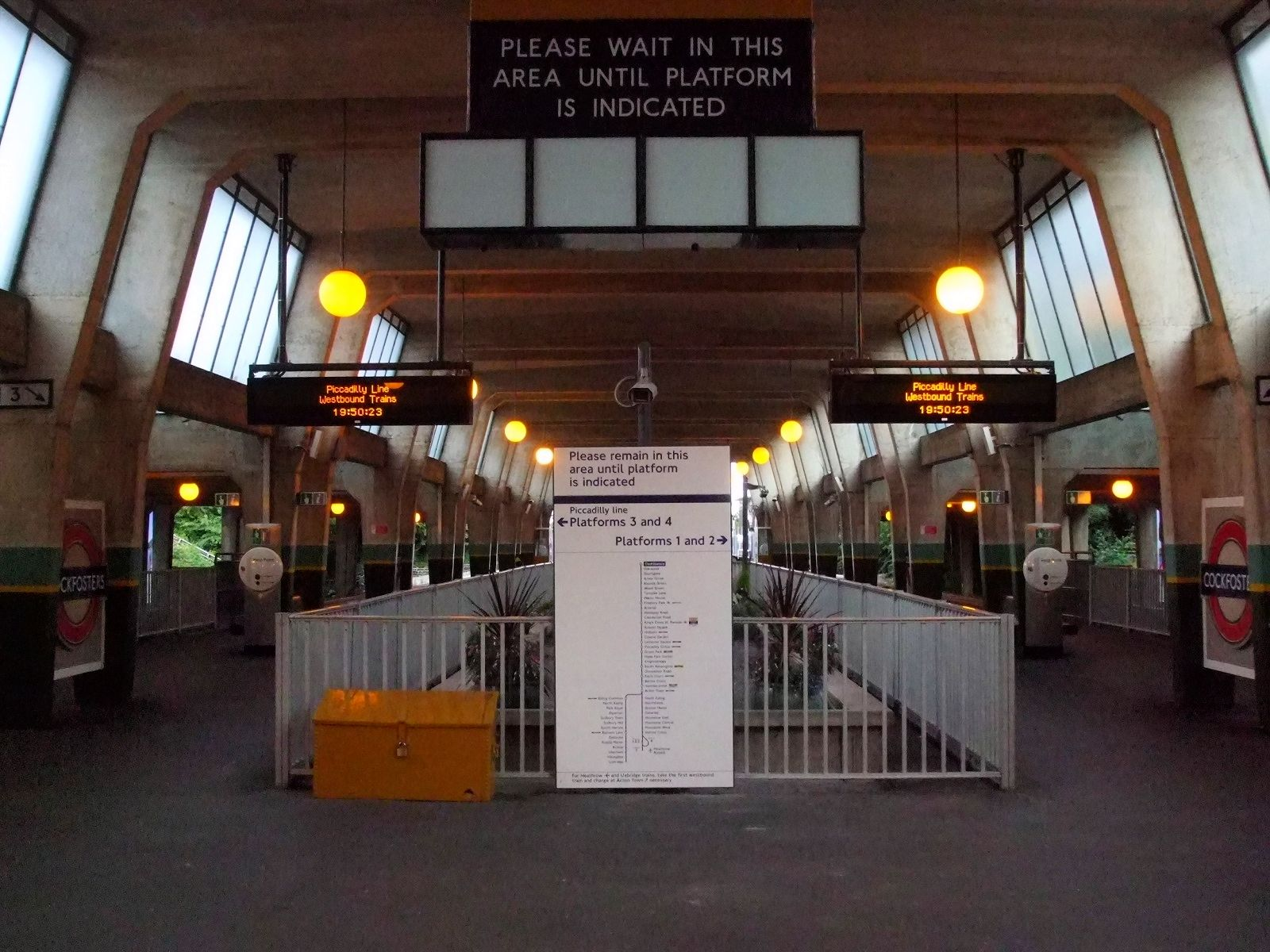 View from just inside the ticket barriers looking towards the platforms at Cockfosters tube station